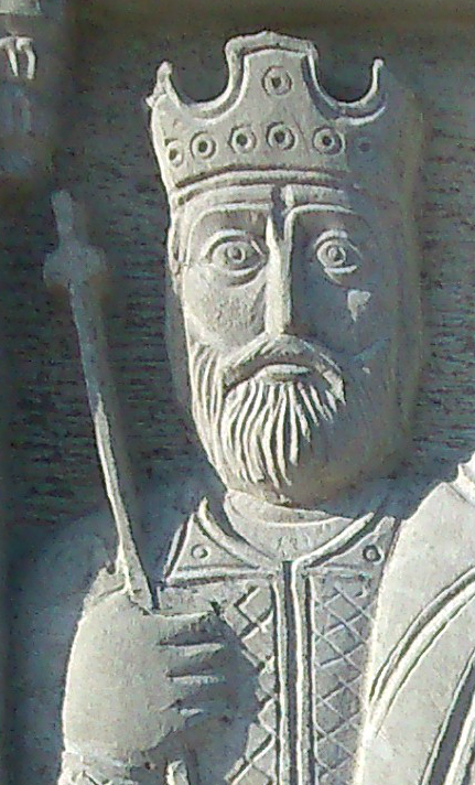 Relief of King Constantine I of Georgia